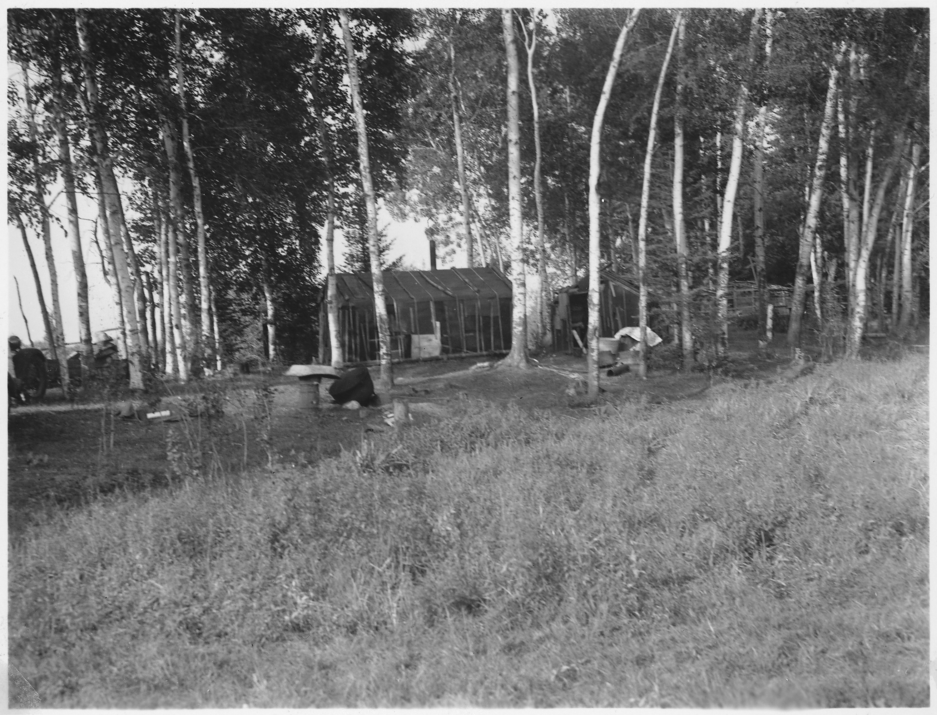 Scope and content: East Lake Chippewa Reservation.